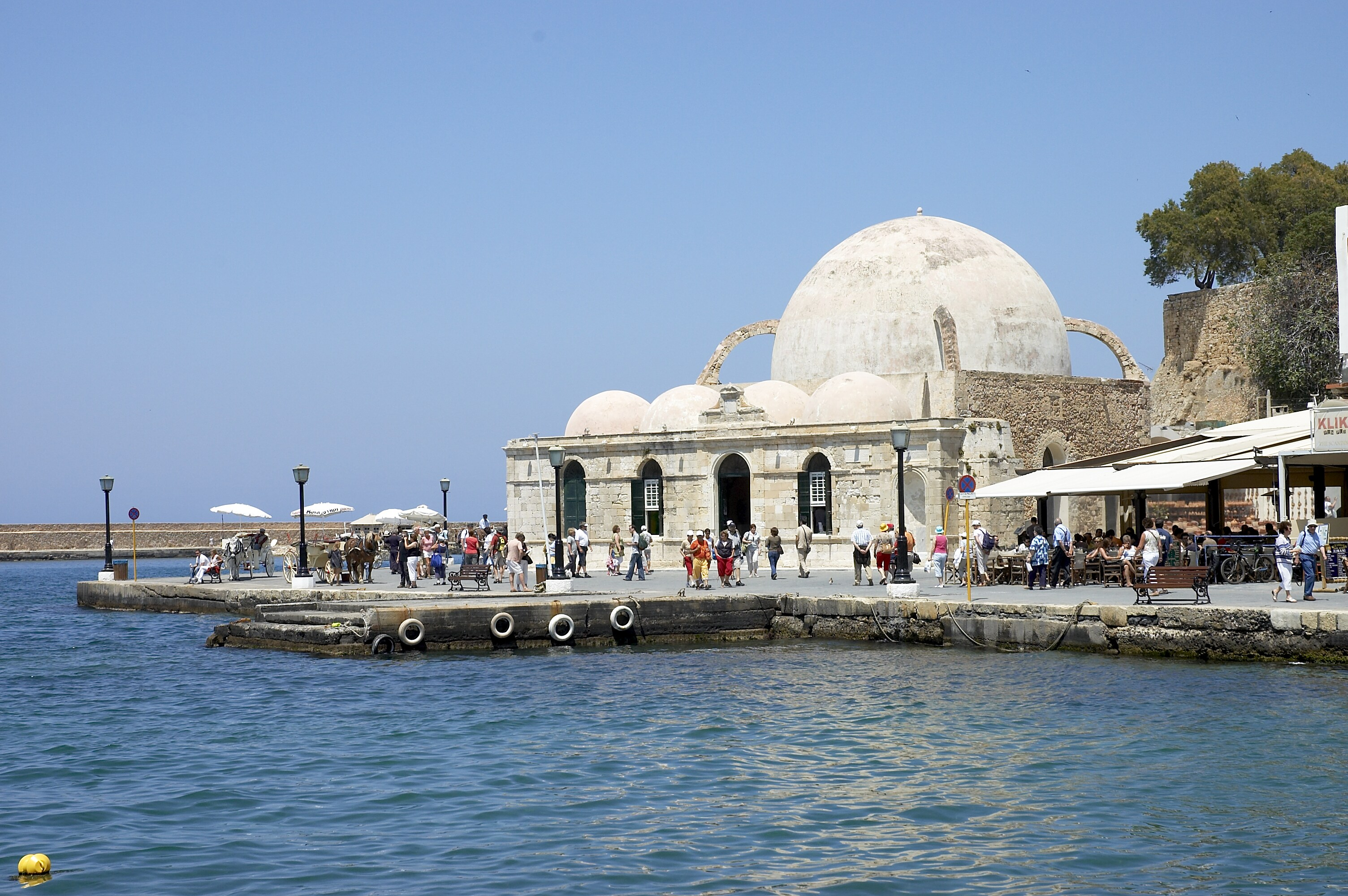 The Mosque of the Janissaries ("Yiali Tzamissi", 17th century) in the town of Chania.